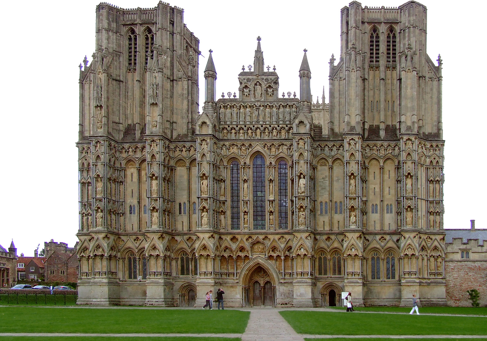 The west front of Wells Cathedral